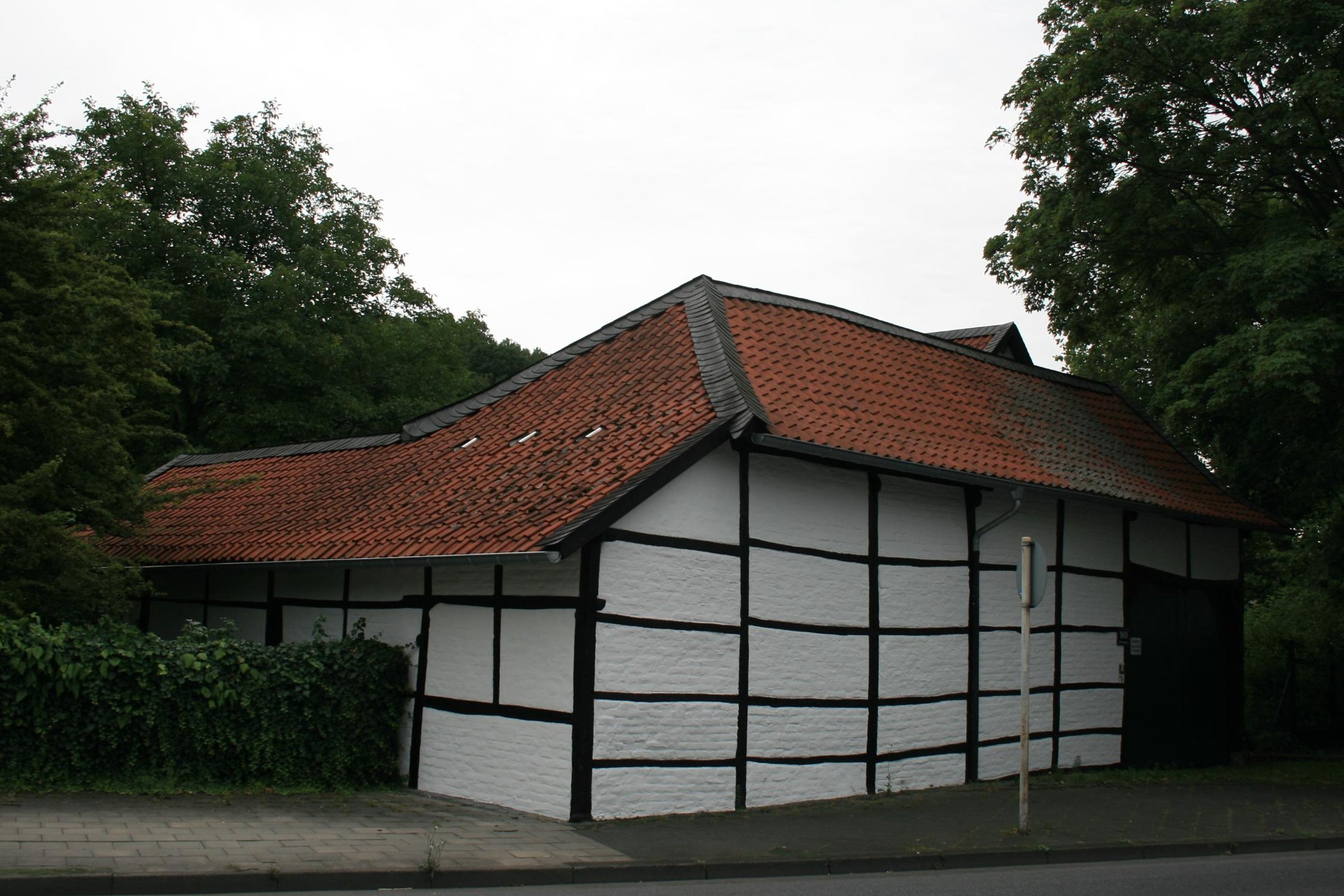 Cultural heritage monument No. F 001 in Mönchengladbach